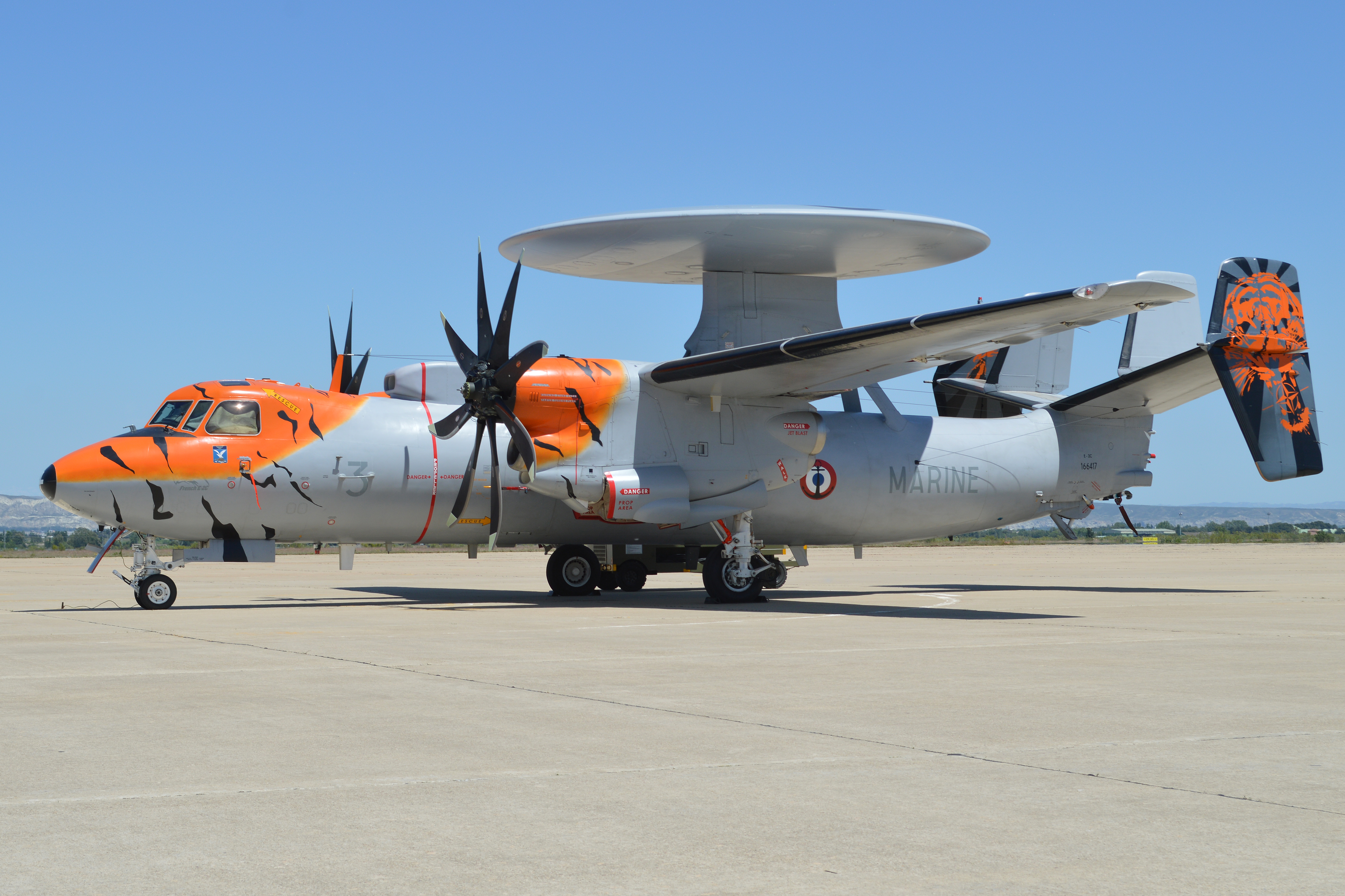 c/n FR-3. Allocated US Navy Bureau No 166417. Operated by 4 Flotille (4F), Aeronavale. Seen during the 2016 NATO Tiger Meet (NTM), Zaragoza Air Base, Spain. 20-5-2016